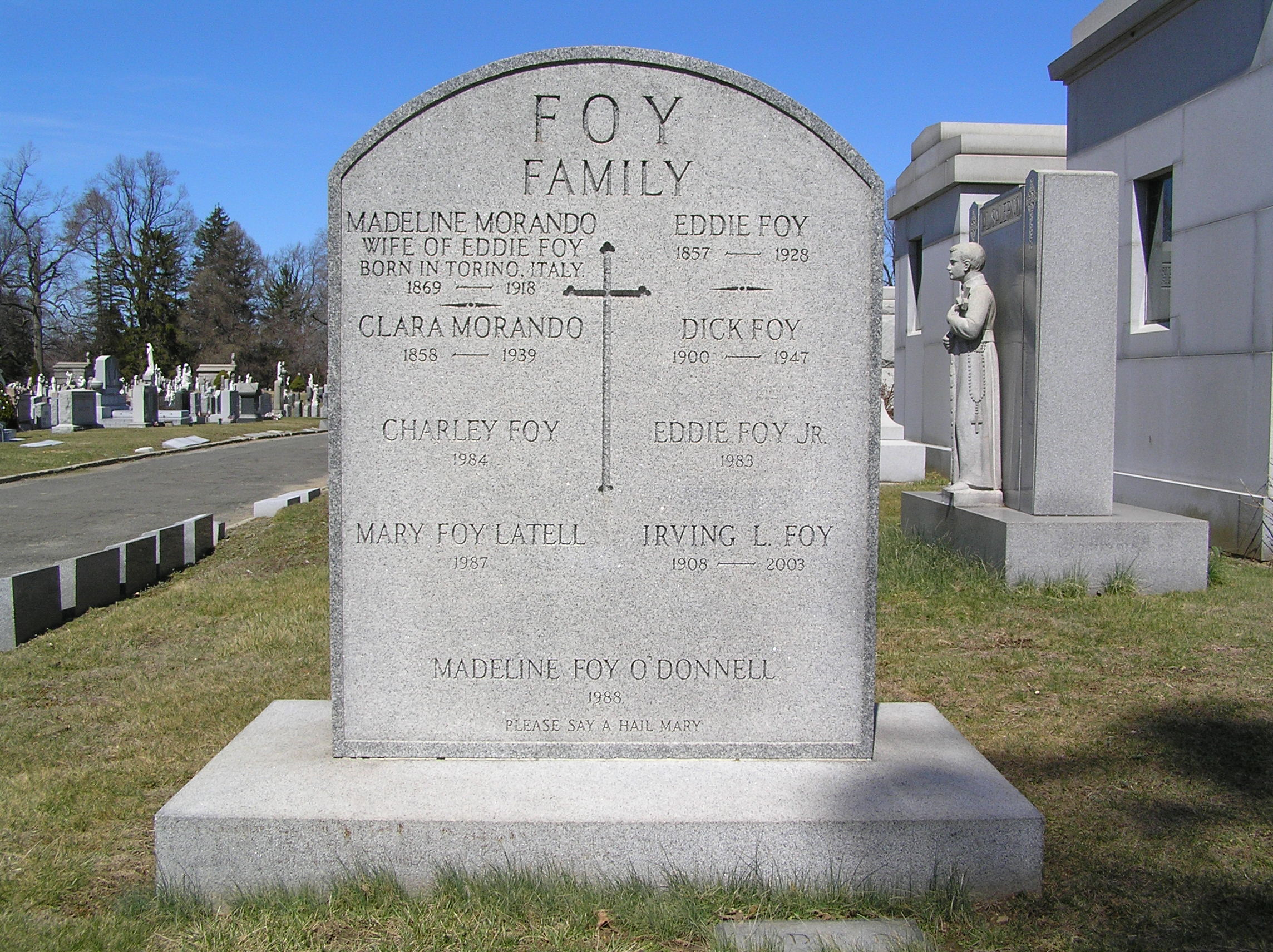 I took this photograph of the headstone of Eddie Foy in Holy Sepulchre Cemetery in New Rochelle, New York, on March 28, 2007.